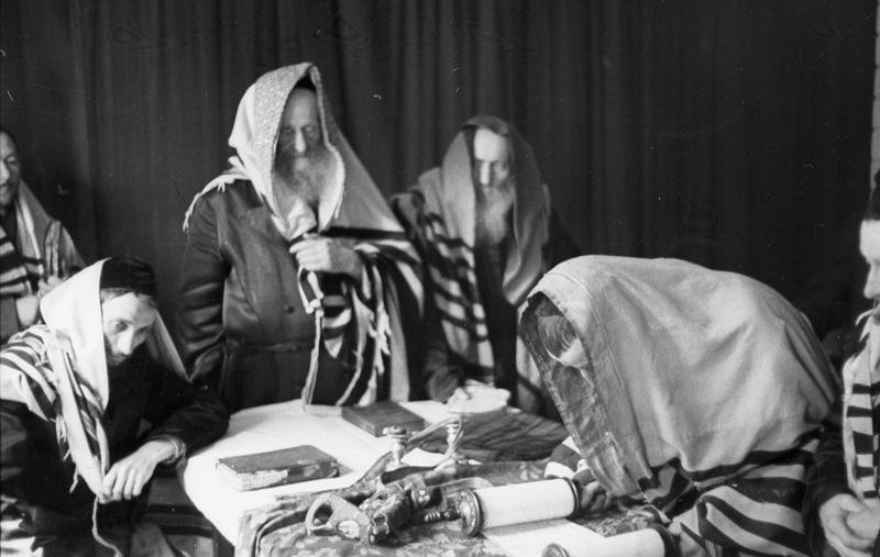 Warsaw Ghetto: Praying Jews - scene created for German propaganda move created in May of 1942.